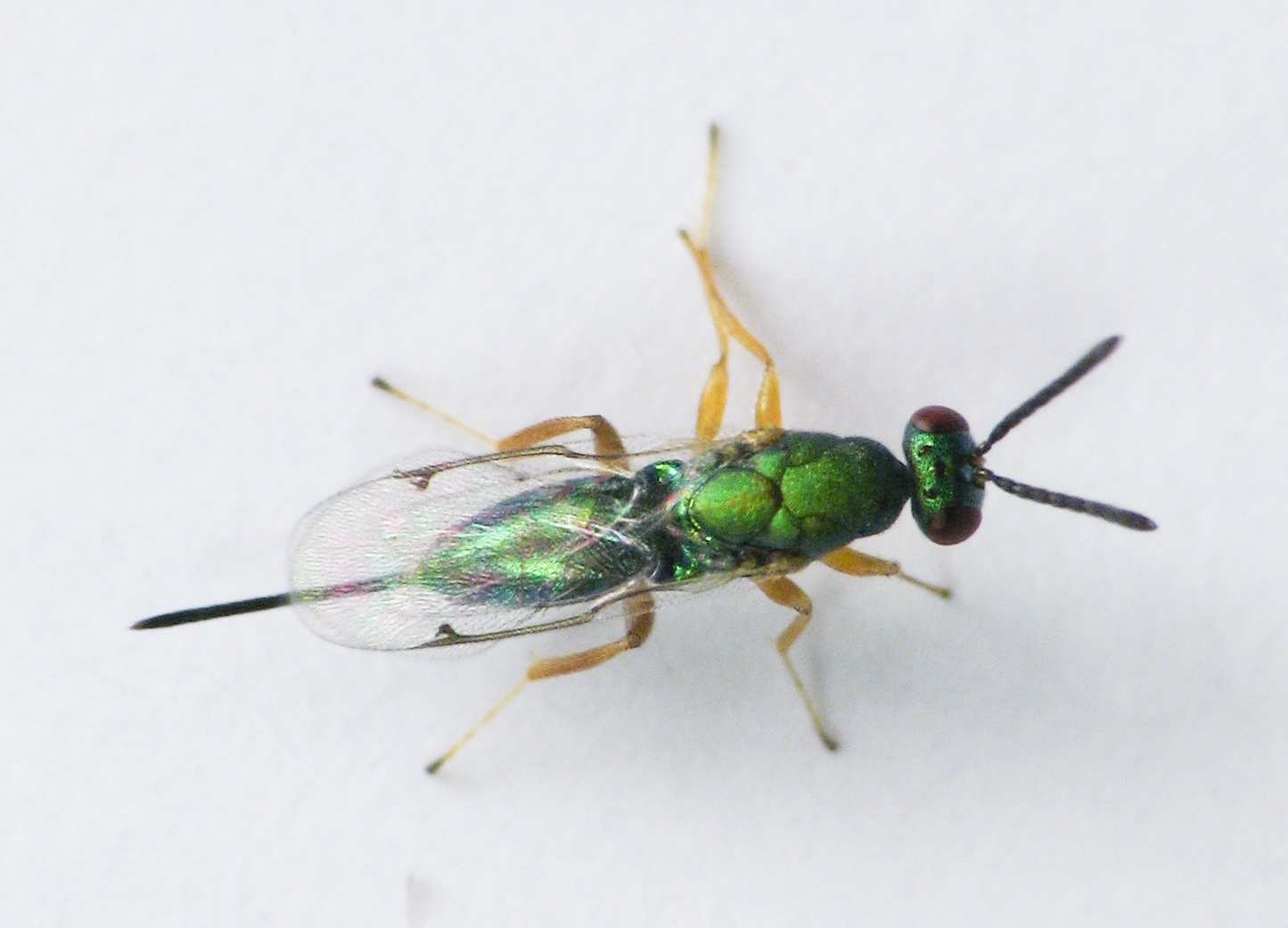 Chalcid wasp, Torymus, female from a gall on meadowsweet, parasite of Dasineura salicifoliae ( Size: ~ 3 mm. Schoodic Point, Acadia National Park, Hancock County, Maine, USA.